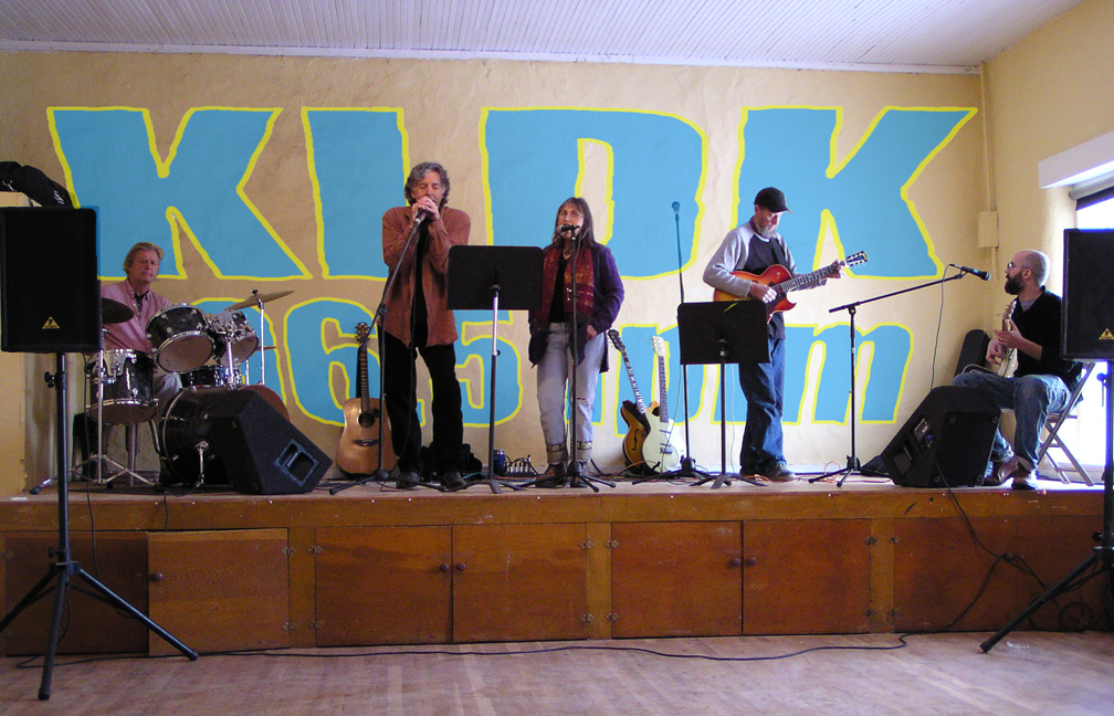 The Pathetics a Dixon band (L-R, OMAR, Father Flim Flam, Selma Harwell, Roger Chilton, Robert Arellano) perforning at a KLDK-LP benefit for the Embudo Valley Community Library, January 14, 2007 The photo was taken by Clark Case, who along with the rest of the Dixon All Stars were waiting in the wings to take the stage.